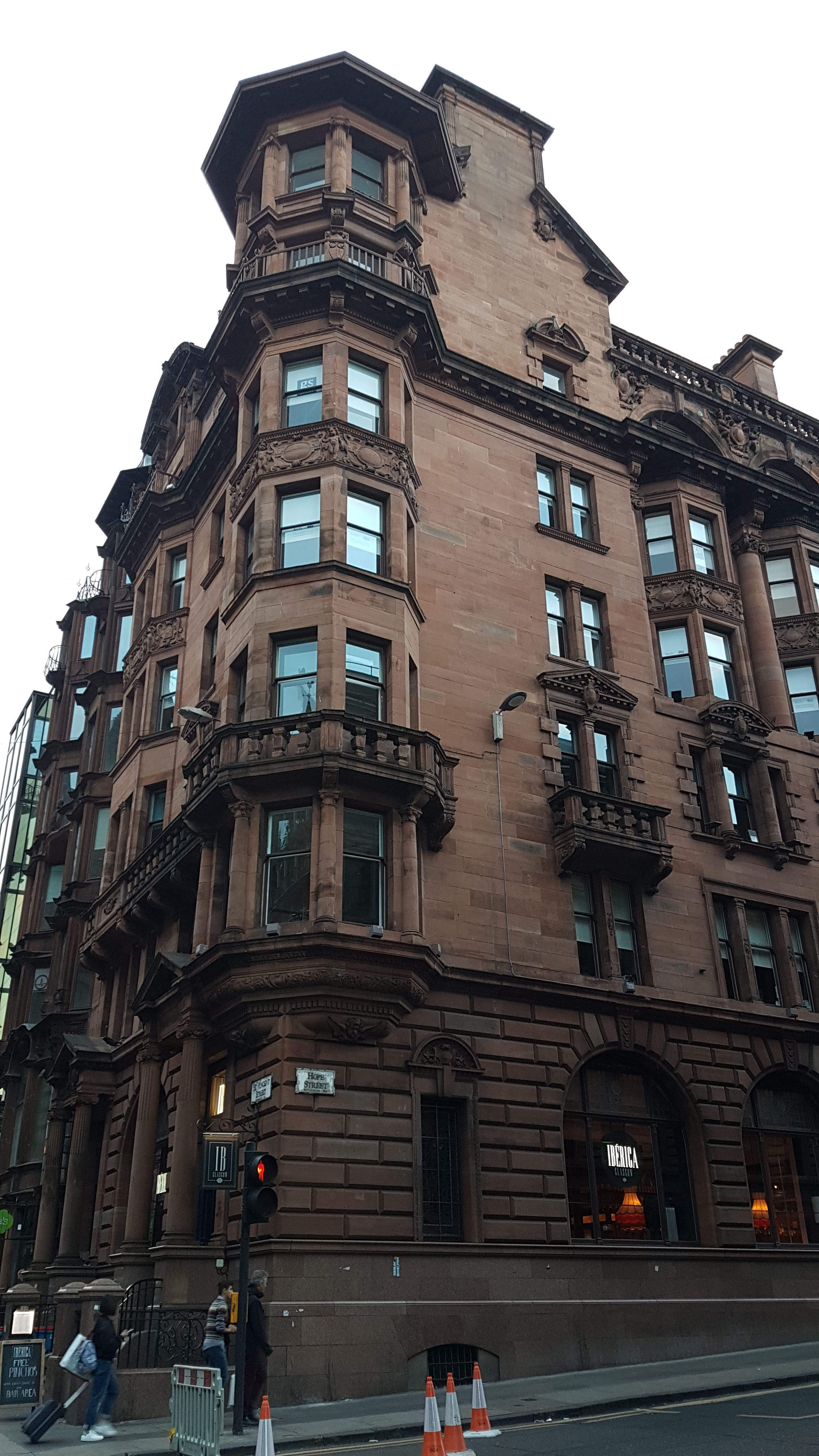 140, 142 St Vincent Street, Royal Bank Building Wikidata has entry Q17568617 with data related to this item.